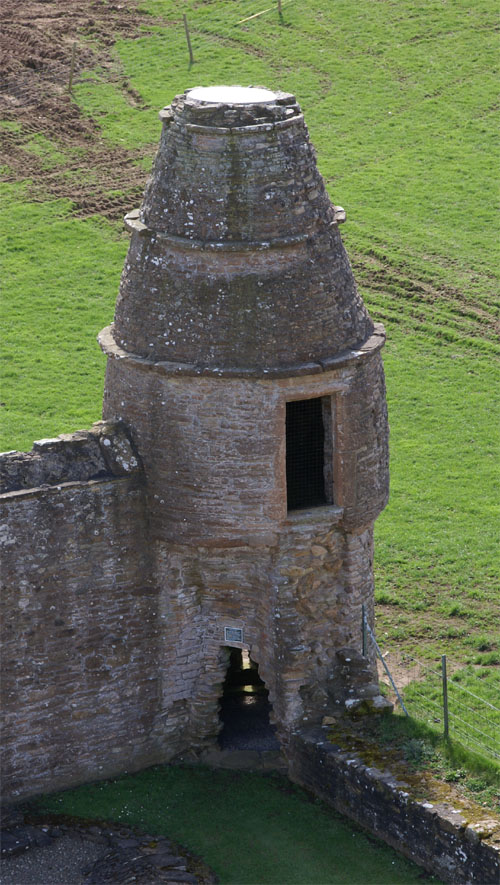 Crossraguel Abbey (Scotland) - dovecot